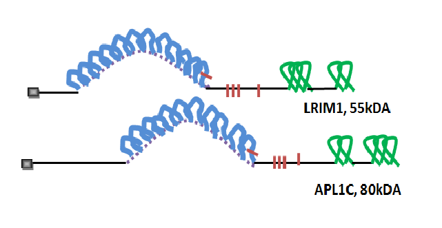 APL1C and LRIM1 are leucine rich repeat proteins which form a heterodimeric complex.